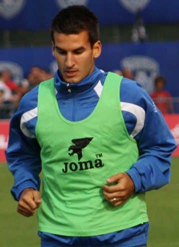 An image of Alen Marcina.